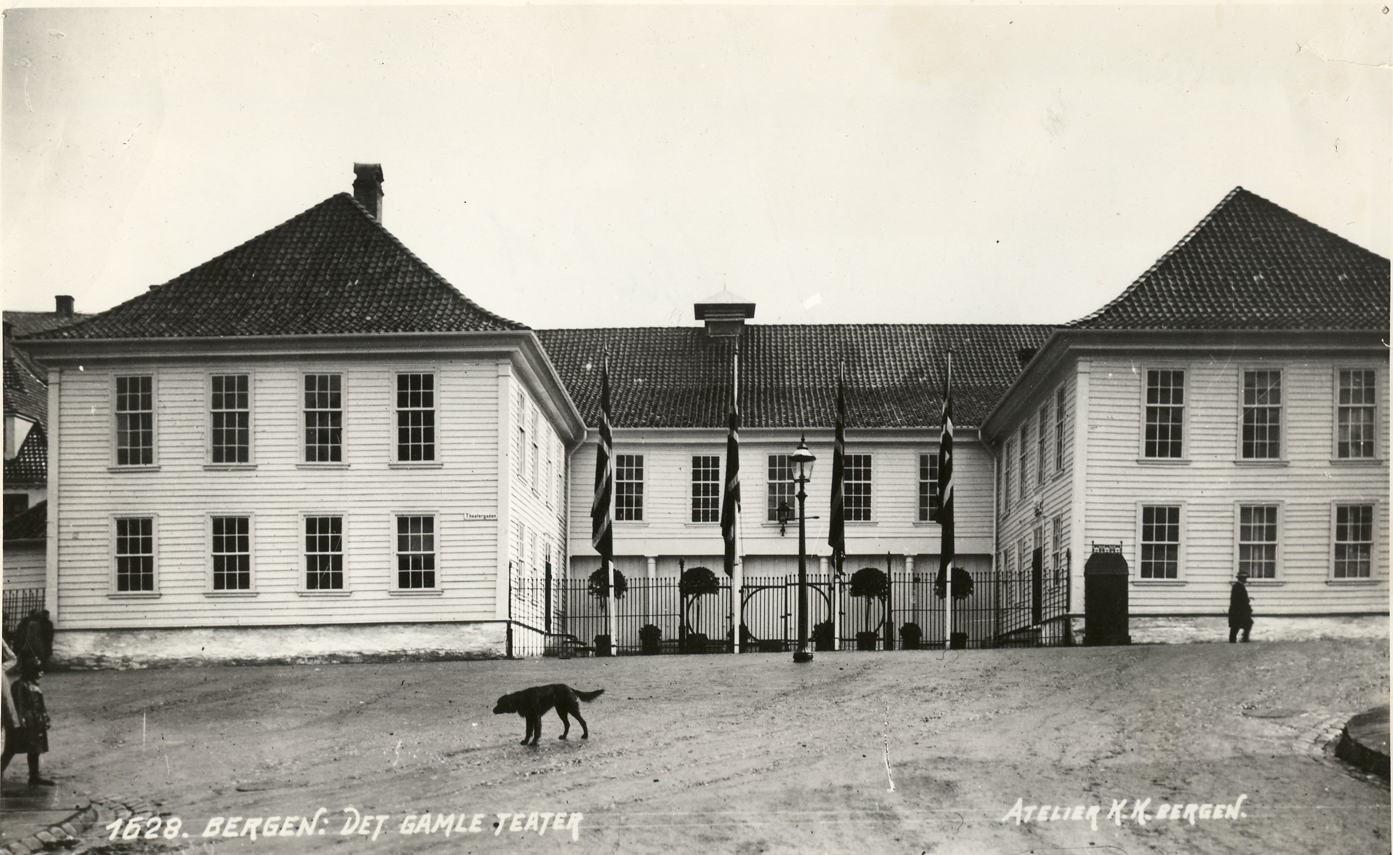 Artist: K. K. Atelier Bergen Date/place: unknown, Bergen/Norway Subject: Exterior of the old theatre in Bergen Medium: photographic postitive, B&W Original belongs to the Theatre Archive at the University of Bergen